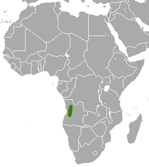 Heather Shrew (Crocidura erica) range